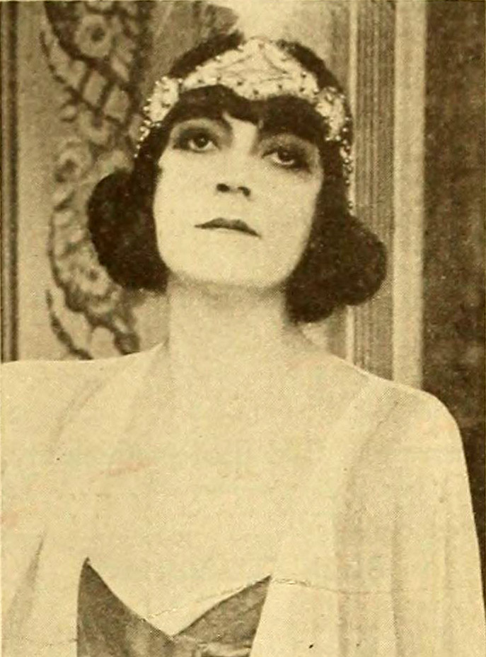 Photograph of Asta Nielsen in Motography